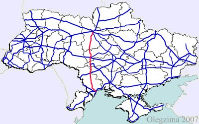 map of motorway M05 in Ukraine